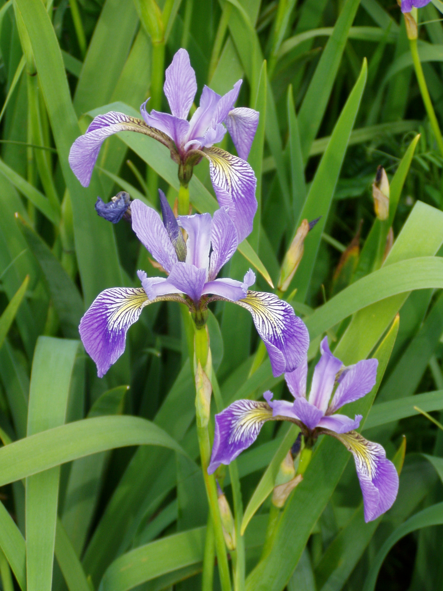 Blue flag (Iris versicolor). Photo taken by Danielle Langlois in July 2005 at the Forillon National Park of Canada, Quebec, Canada.